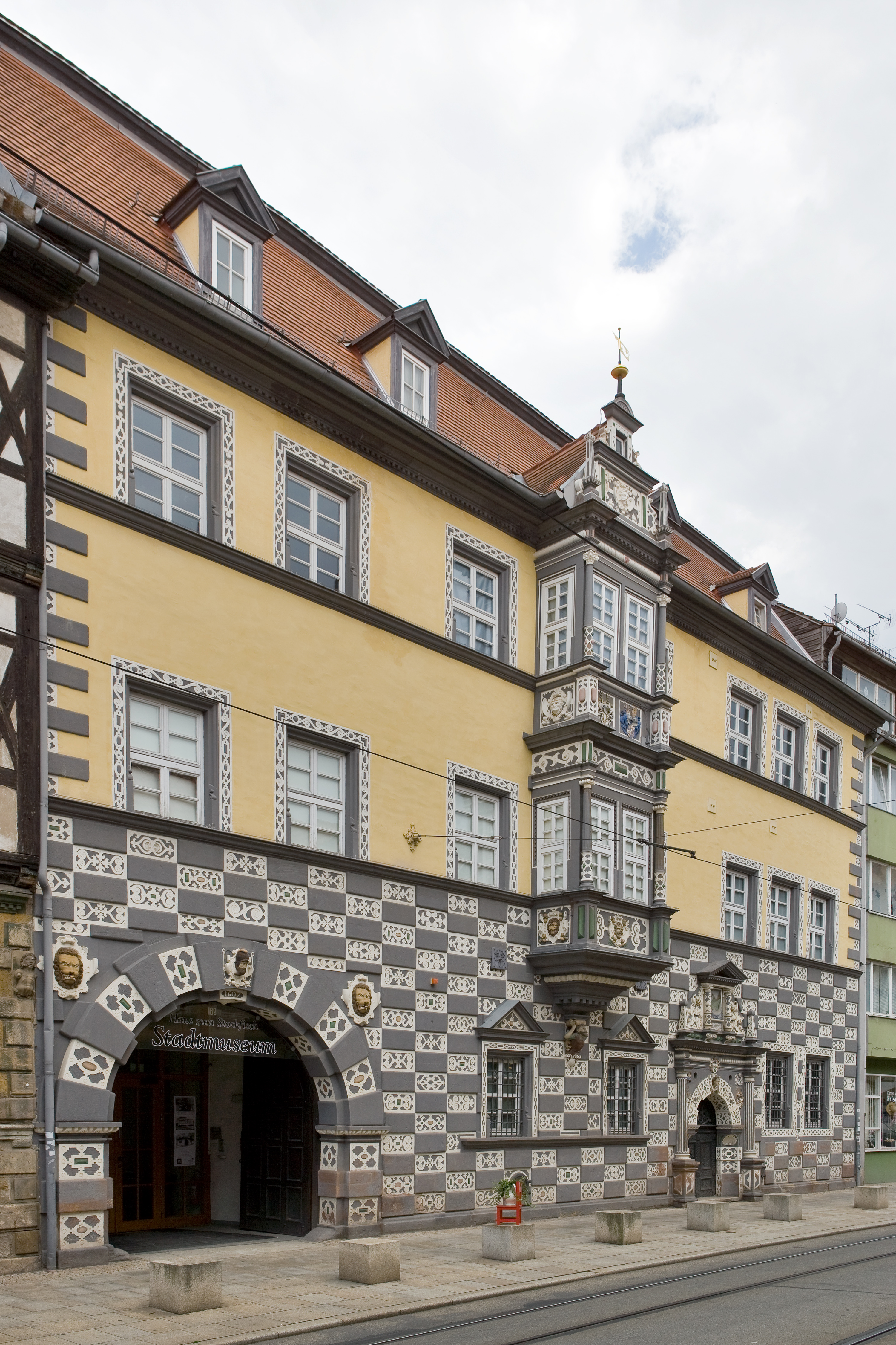 Erfurt: Haus zum Stockfisch (House to the Stockfish) as seen from the northwest